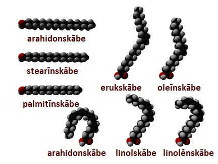 A 3D depiction of various fatty acids (in Latvian).